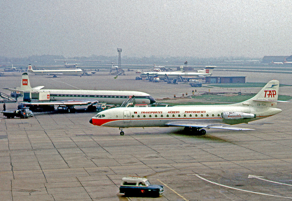 Sud SE.210 Caravelle VIR CS-TCA of TAP Portugal at London Heathrow in 1966